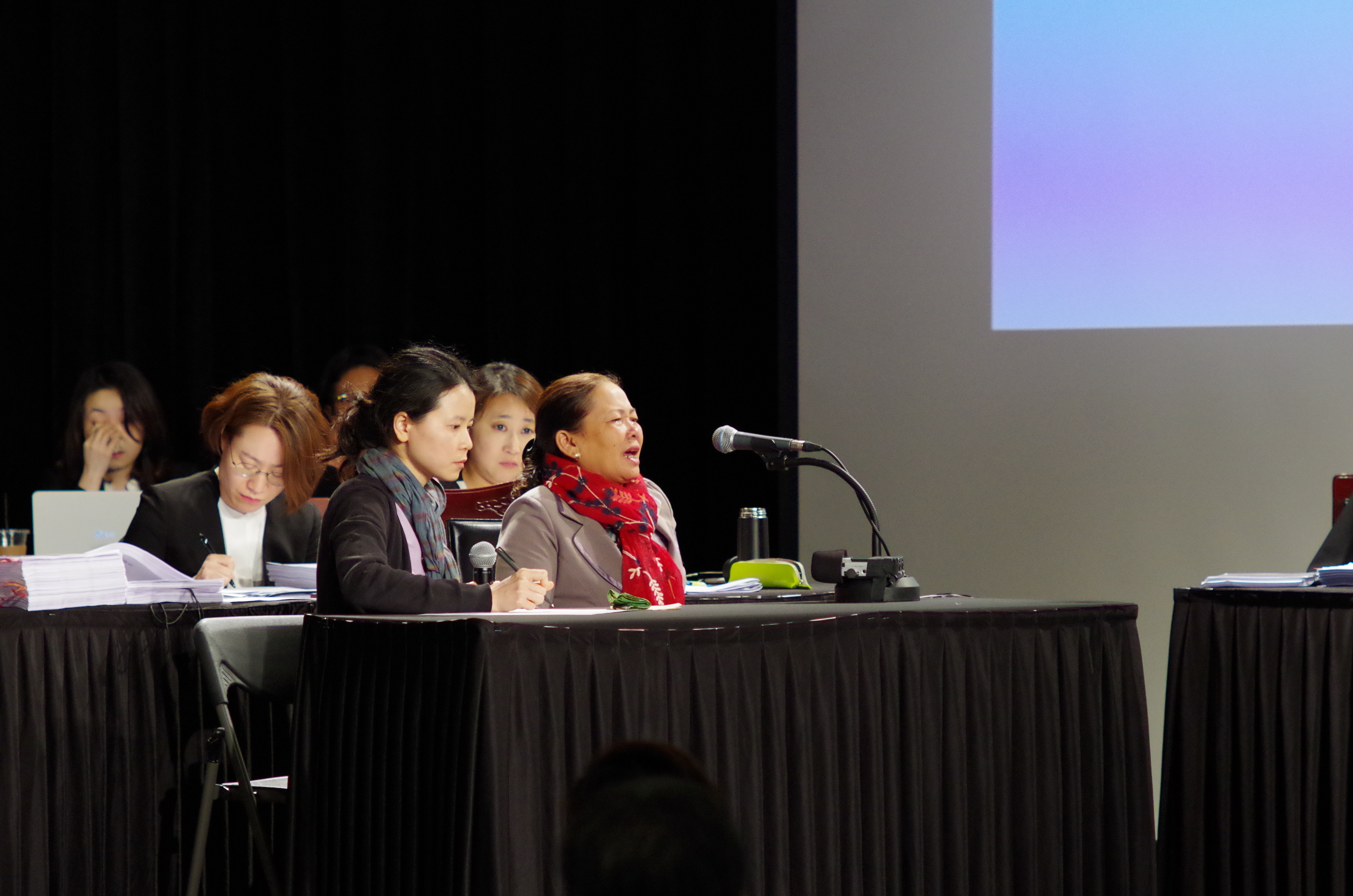 People's Tribunal on War Crimes by South Korean Troops during the Vietnam War to hold by Minbyun and Korea-Vietnam Peace Foundation.